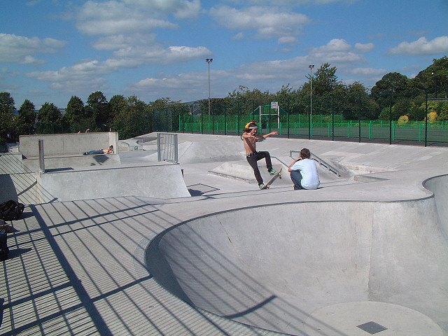 Clitheroe Skatepark. Built thanks to the support of two charities in the area on land owned by the local council. This is a great example of a skater-designed, free, outdoor concrete skatepark. It is floodlit, well fenced and locked at night and has cctv monitoring cameras.